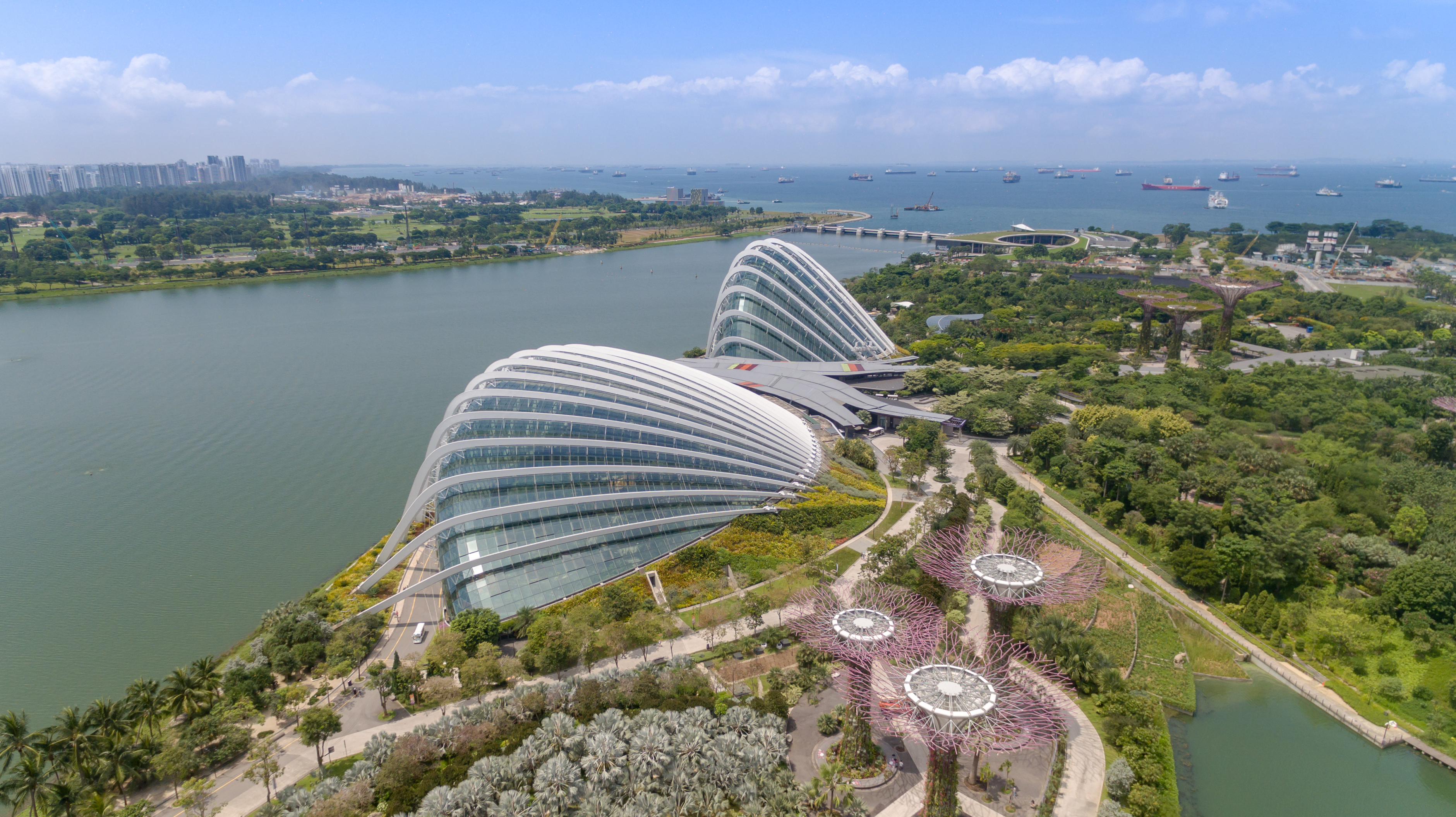 Flower Dome and Gardens by the Bay Singapur Singapur Singapore Luftbild aerial